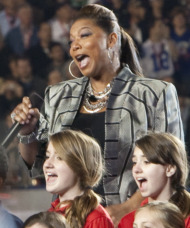 see more at